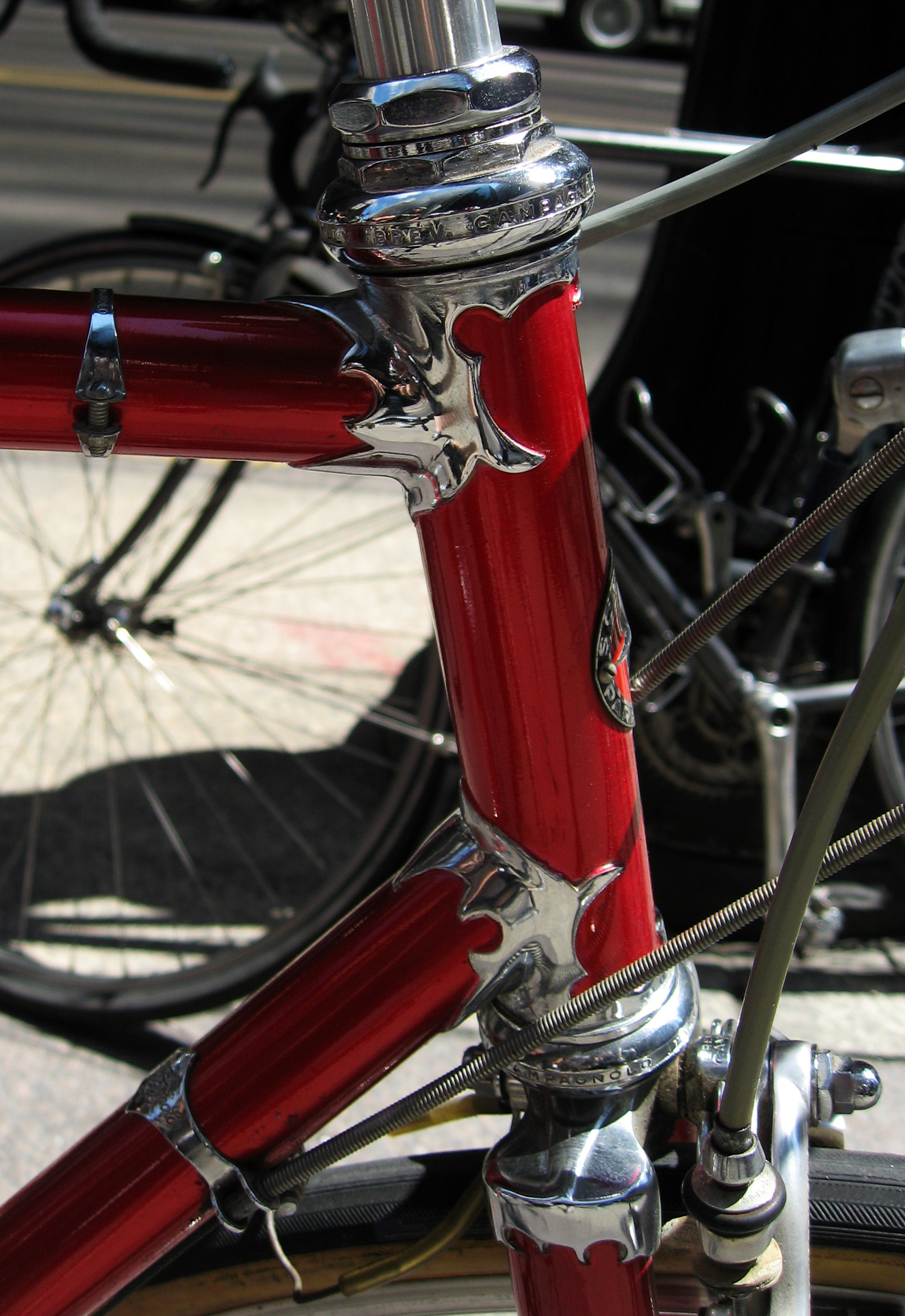 The front end of a Schwinn Paramount bicycle showing the head tube with ornate Nervex lugs and a Campagnolo headset.